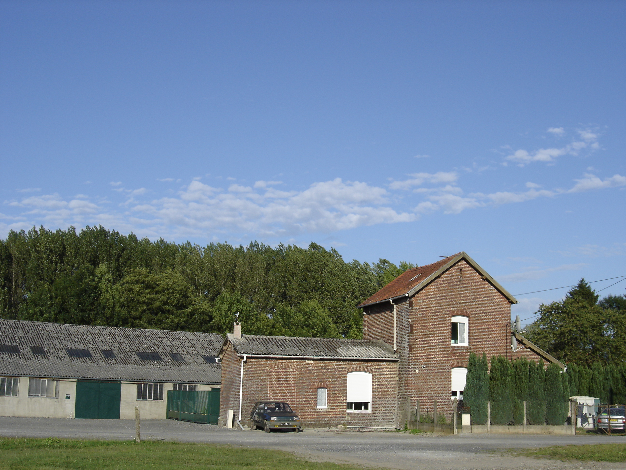 Catillon-sur-Sambre Railway station of the Chemin de Fer du Cambrésis